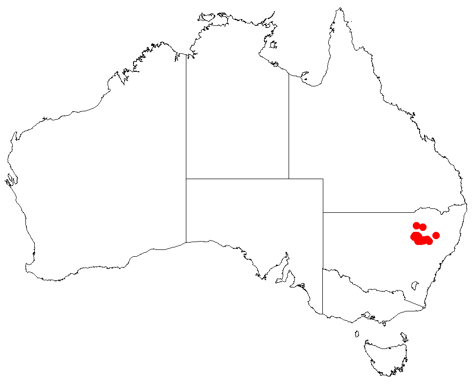 Macrozamia diplomera occurrence data downloaded from Australasian Virtual Herbarium using